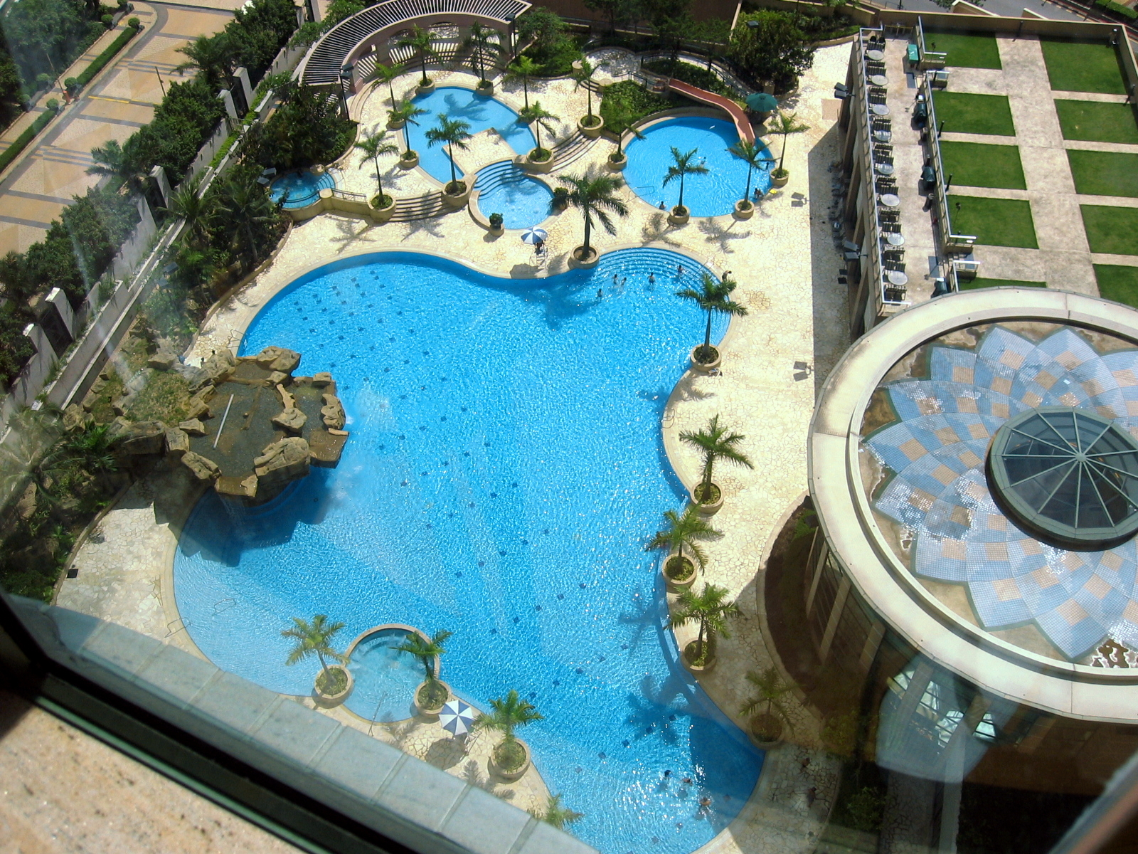 Park Avenue & Central Park Club